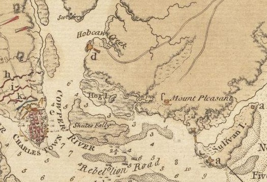 Charleston, Lampriers Point (d), Mount Pleasant and Fort Moultrie (a) 1780